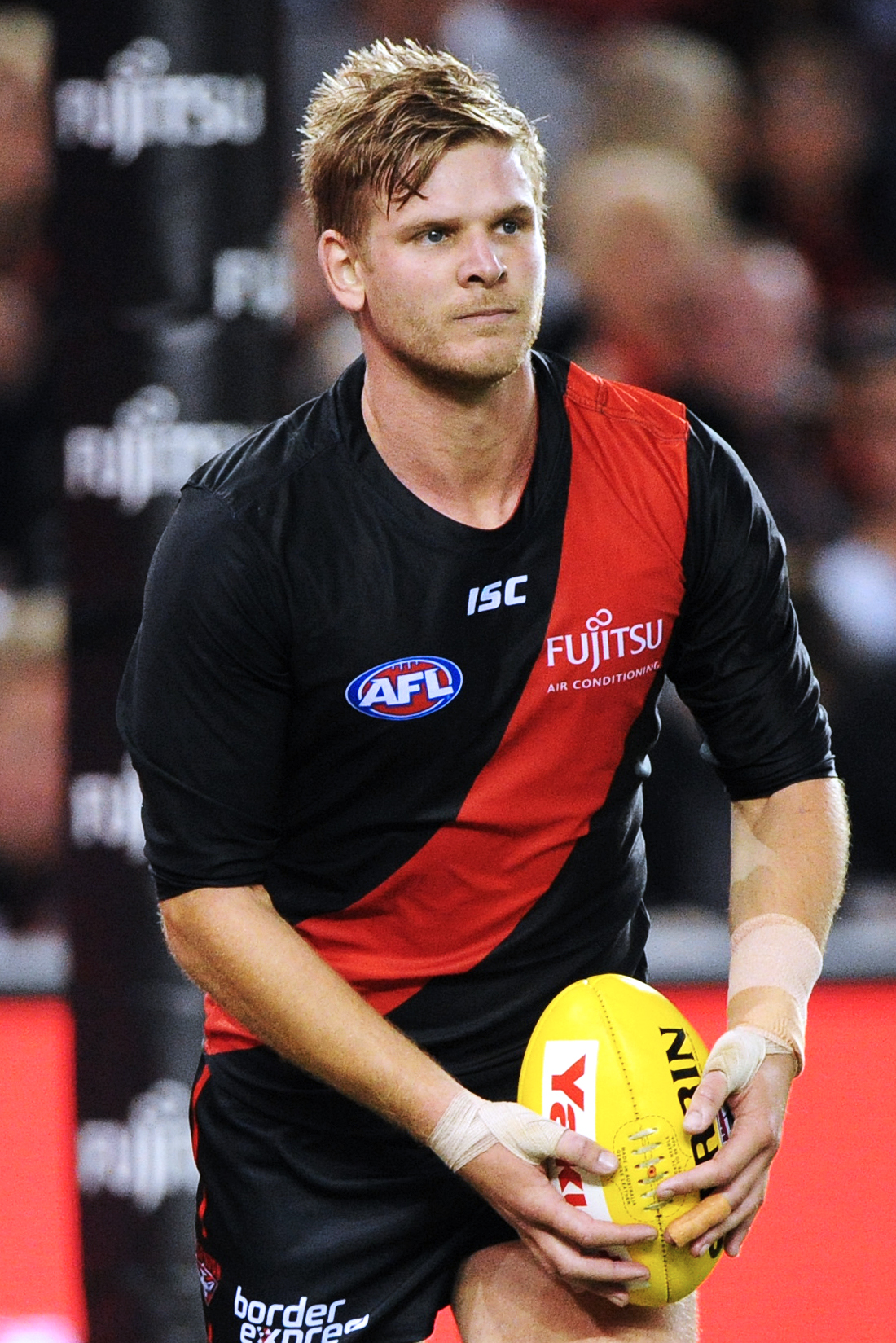 Michael Hurley of Essendon during the 2018 AFL round 6 match between Essendon and Melbourne at Etihad Stadium on Sunday, 29 April 2018 in Melbourne, Victoria.